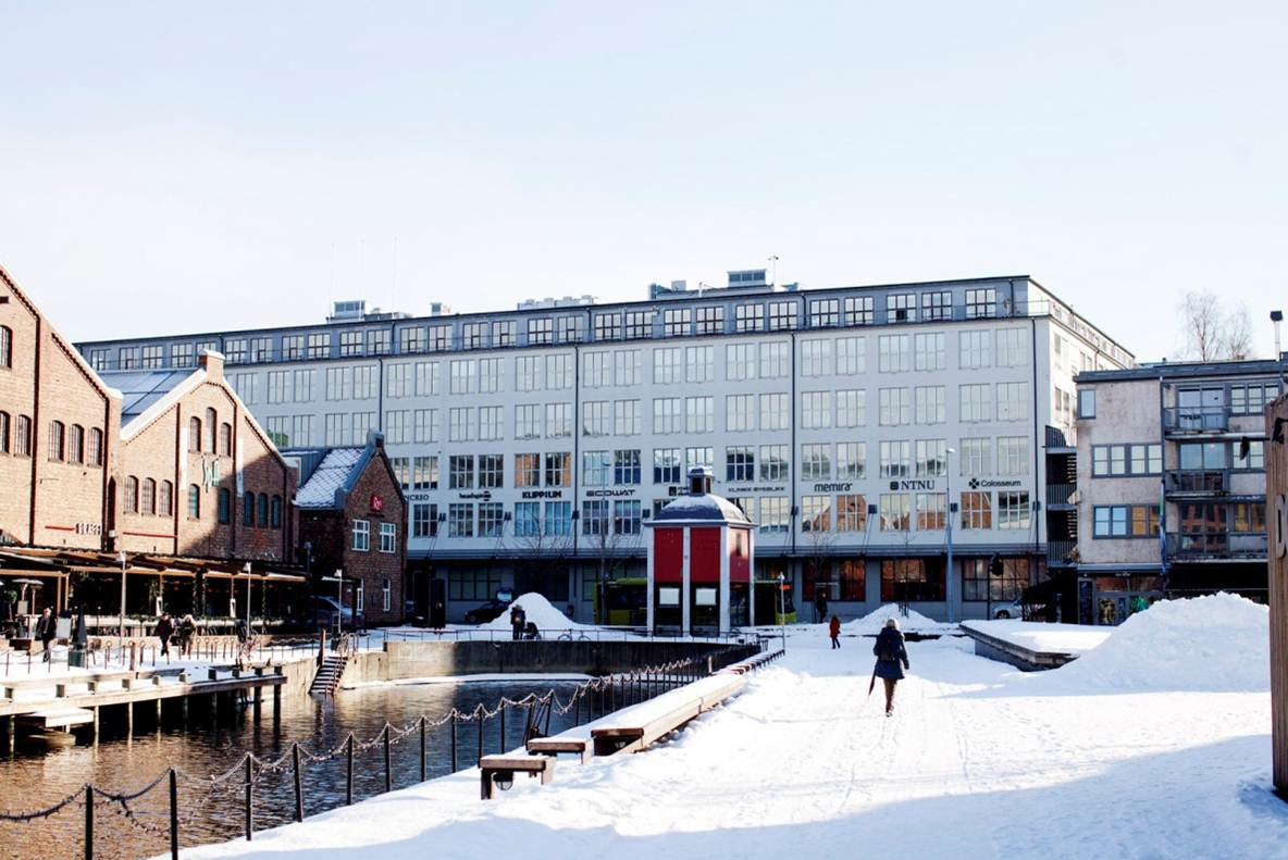 Industribygget (="The industry building"), Trondheim, Norway. The Fine Art Library of NTNU University Library is located on the top floor.